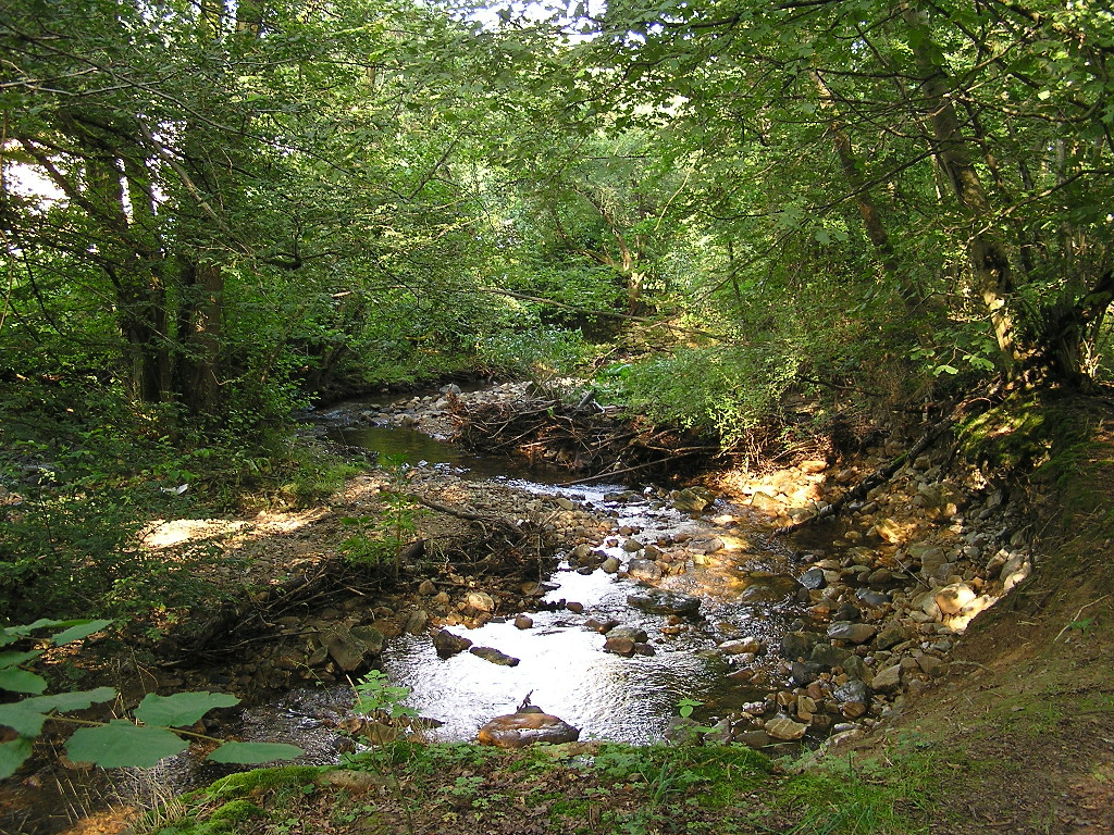 The Erlenbach, tributary of the Nidda at Friedrichsdorf